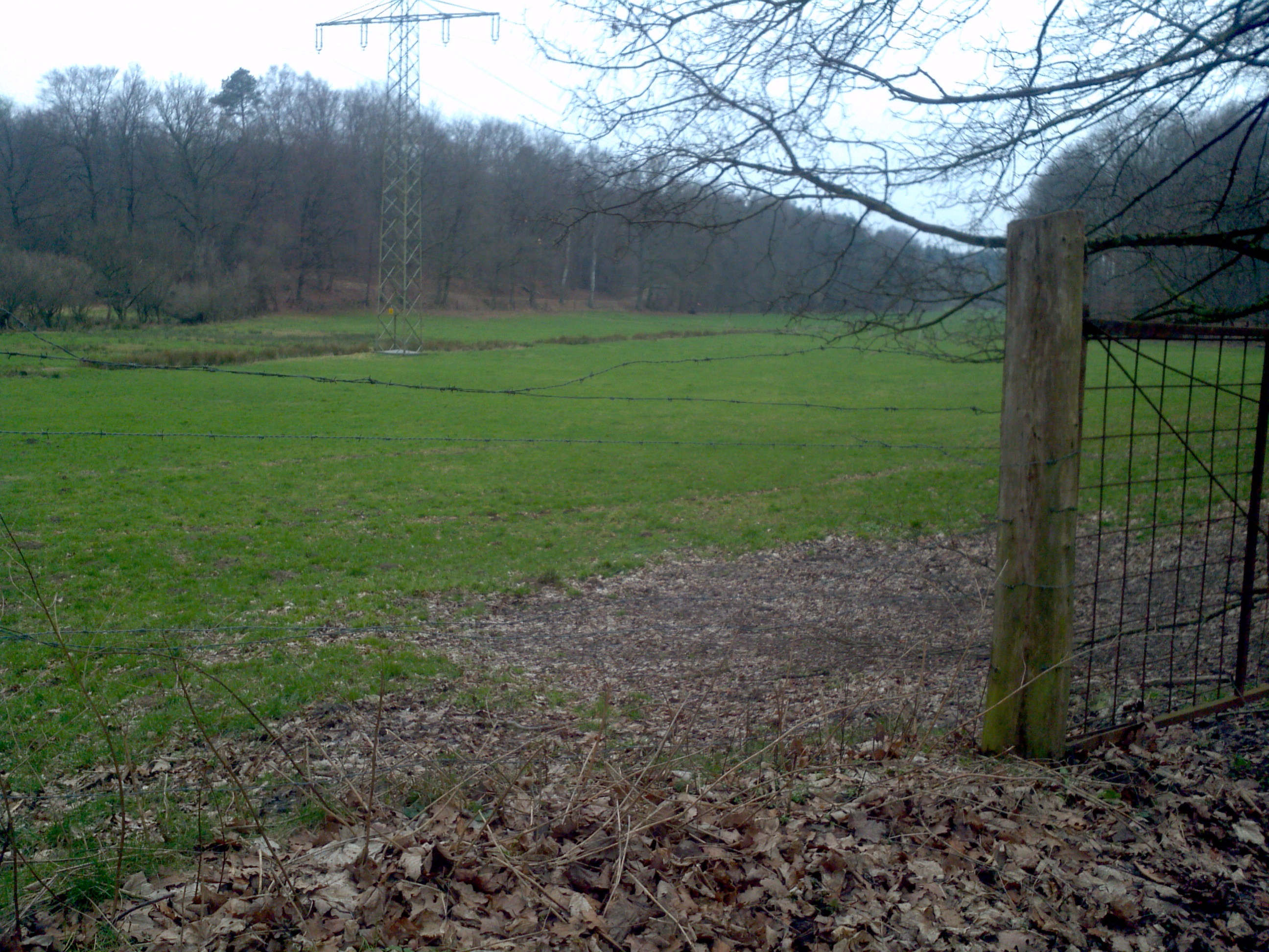 Mutterbach (Blies) valley